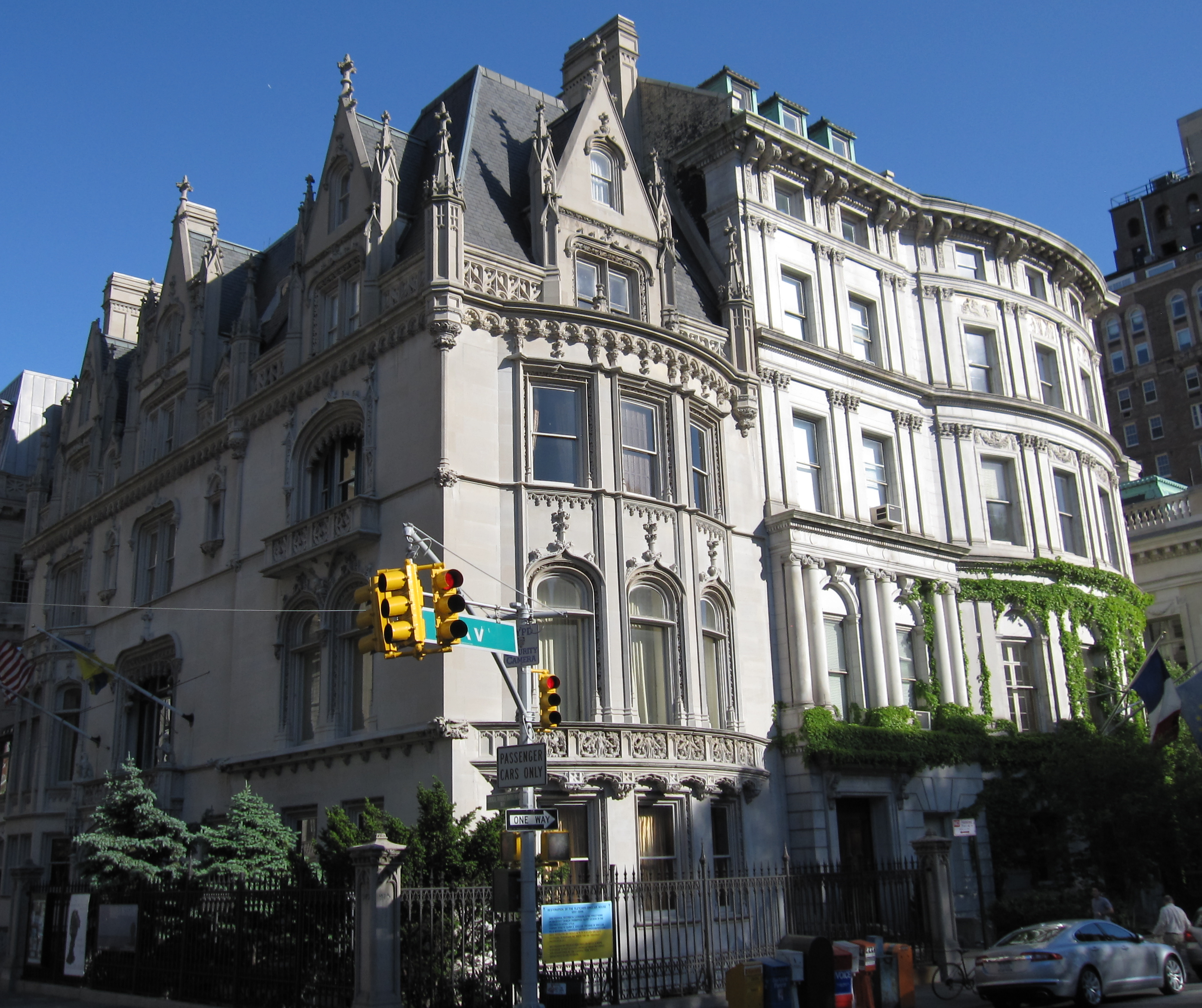 Harry F. Sinclair House